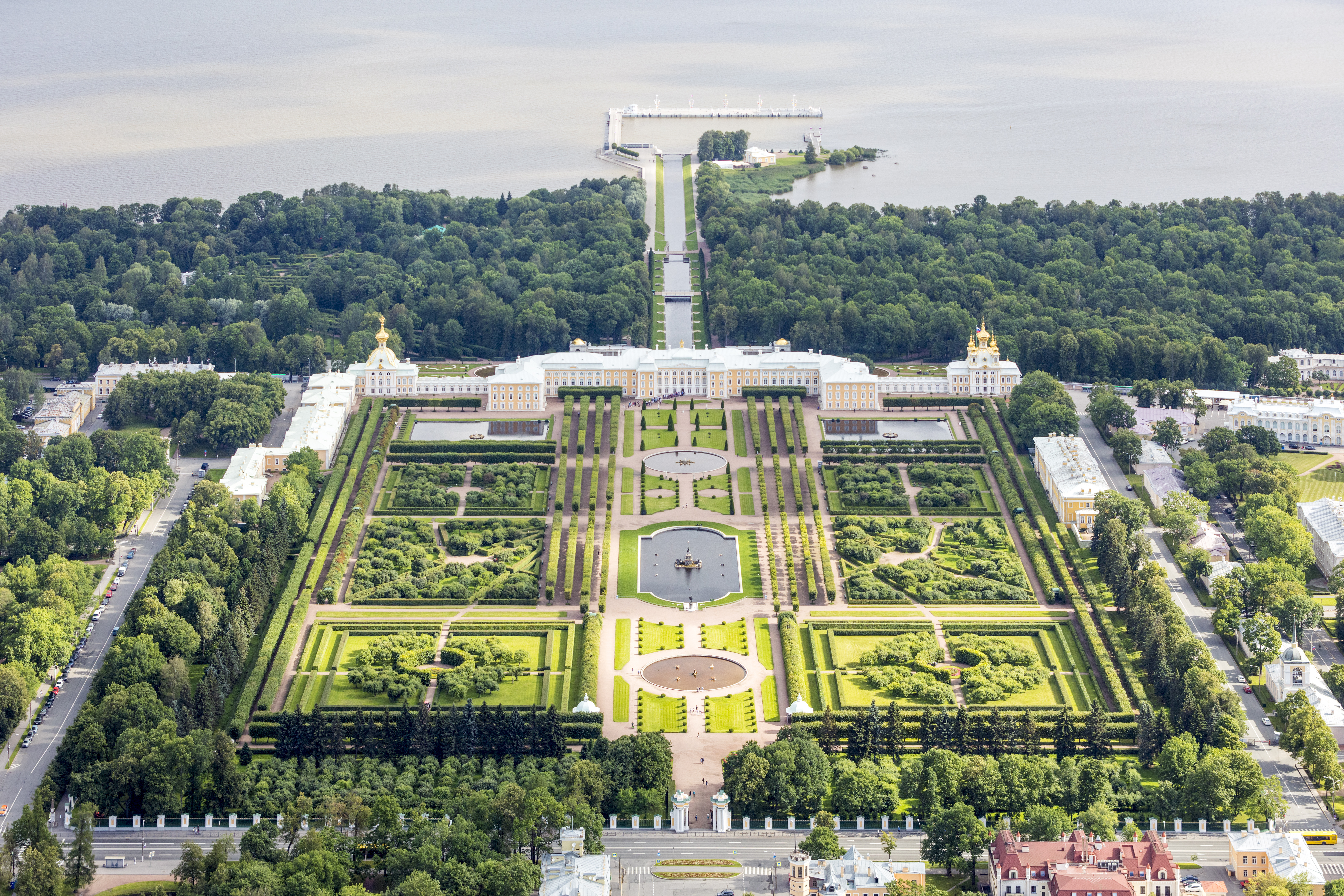 Aerial photo of Peterhof Palace, in Petergof, Saint Petersburg, Russia. Initiated by Peter the Great, the grounds are sometimes referred as the "Russian Versailles".